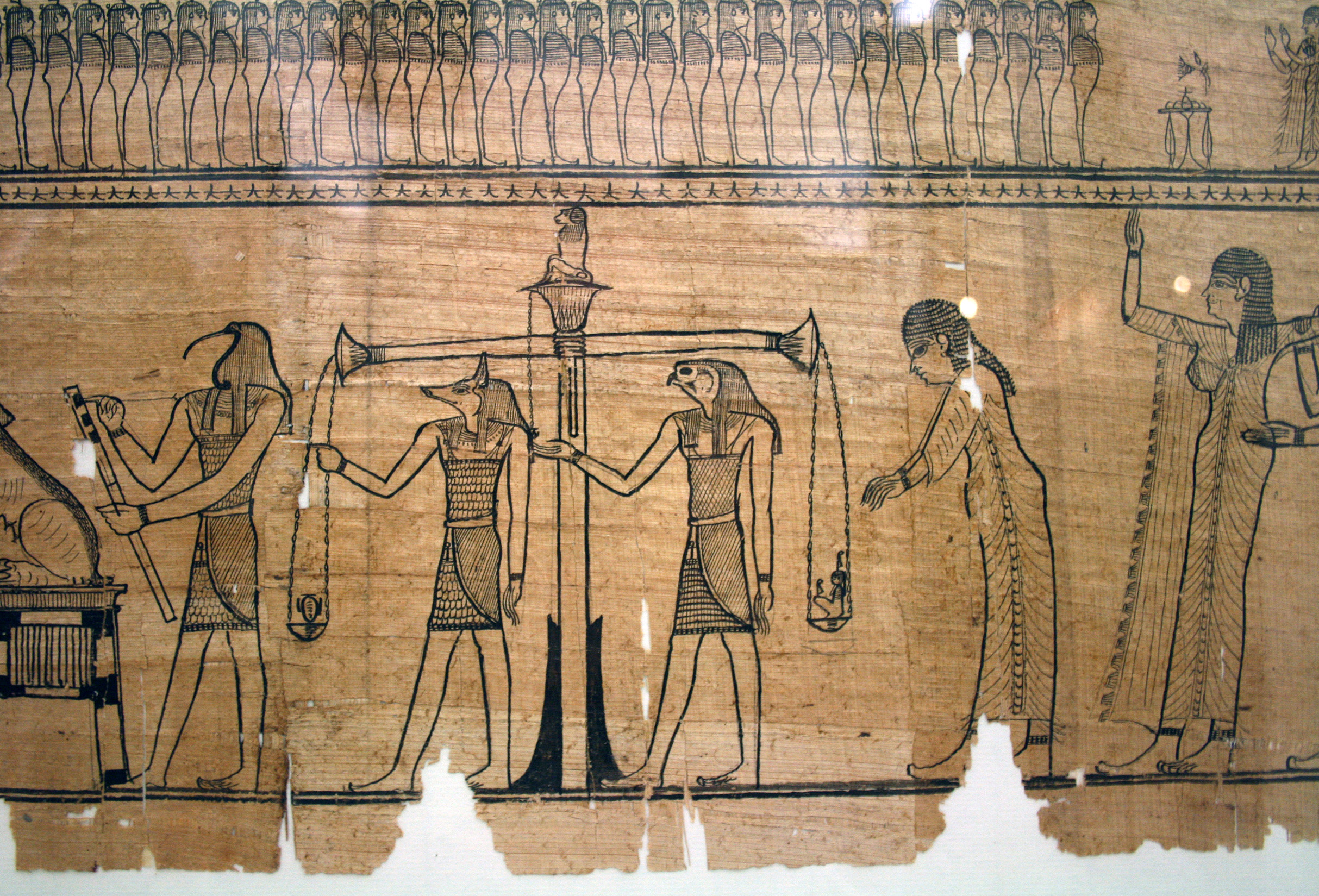 Detail from the book of the dead of Taruma, 3rd to 2nd century b.c. (Vienna, Austria).